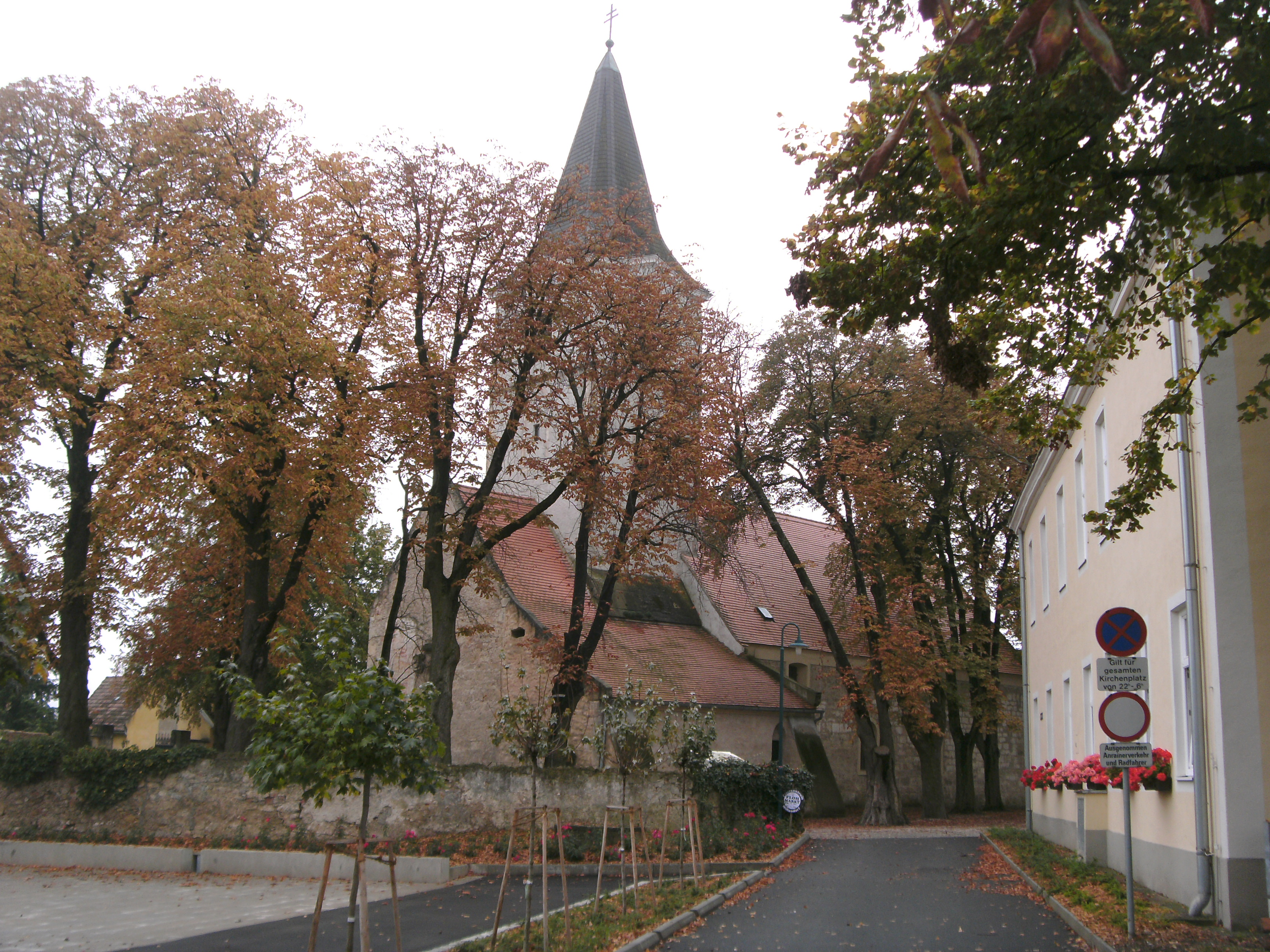 Saint Giles parish church of St. Egyden am Steinfeld, Lower Austria